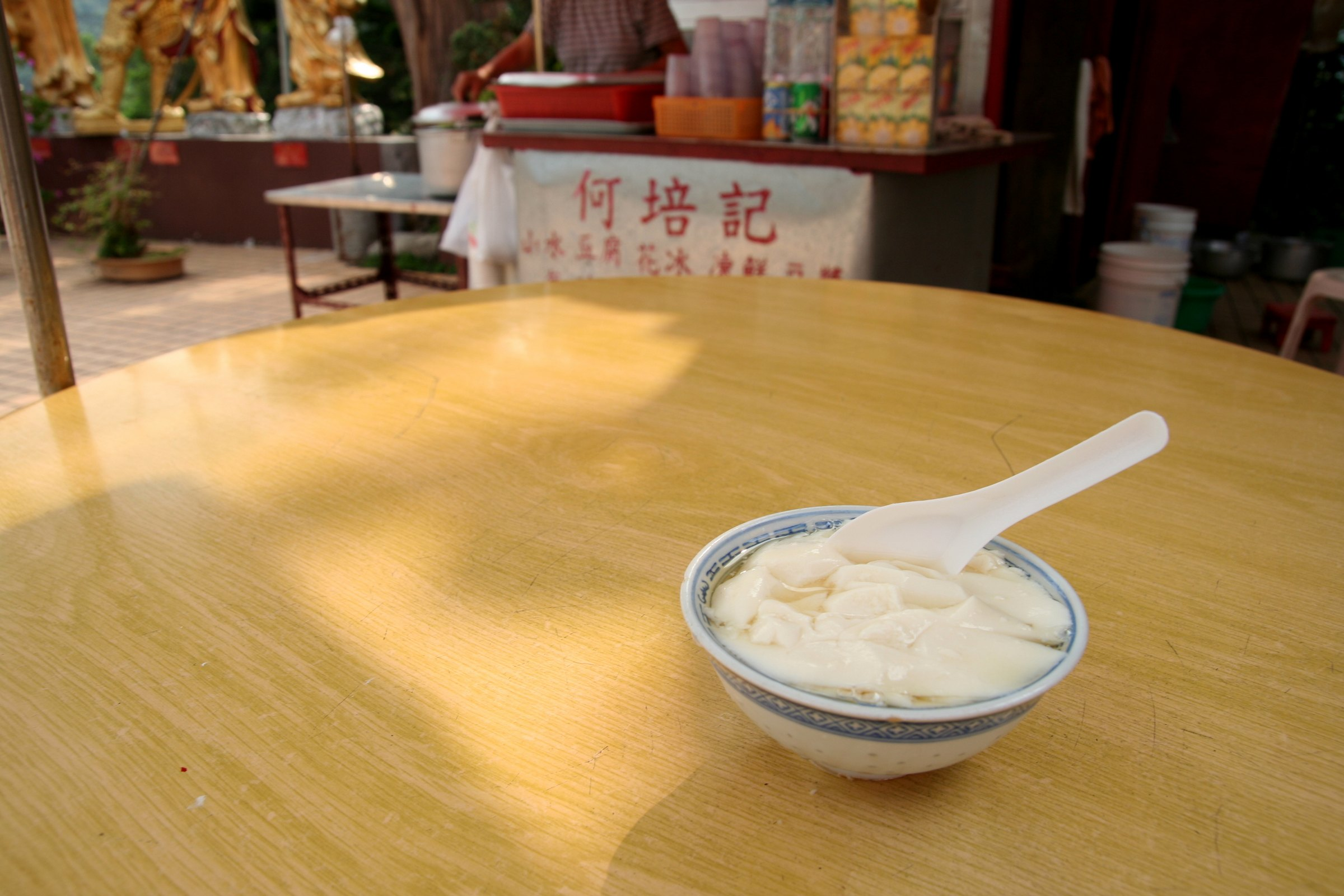 Ten Thousand Buddhas Monastery (萬佛寺) is a Buddhist temple in Shatin, Hong Kong. Photograph author is me.